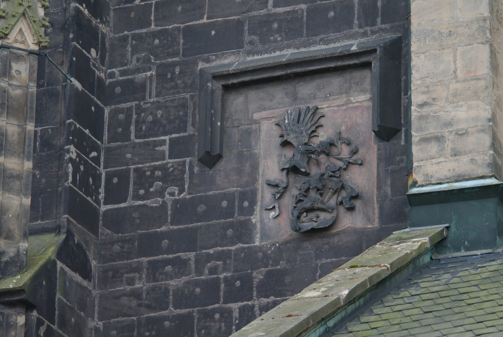 Church of St. Gotthard, Slaný, Vinařického str. The emblem of the city on the south wall